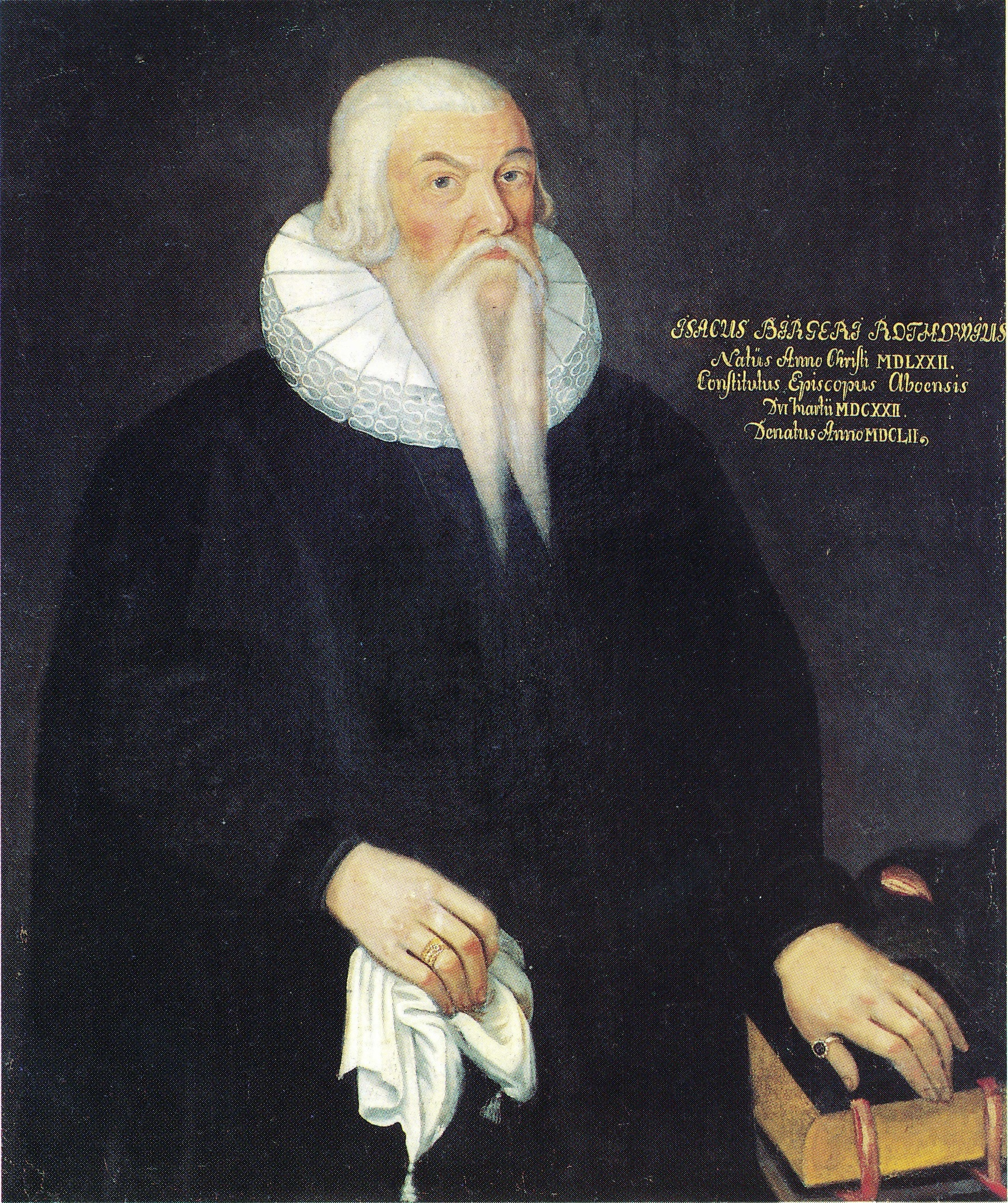 Isac Rothovius (1572–1652), Bishop of Åbo, Gustaf Lundberg's 1764 copy of the portrait painted By Jochim Neiman in 1652. The copy belongs to Helsinki University.